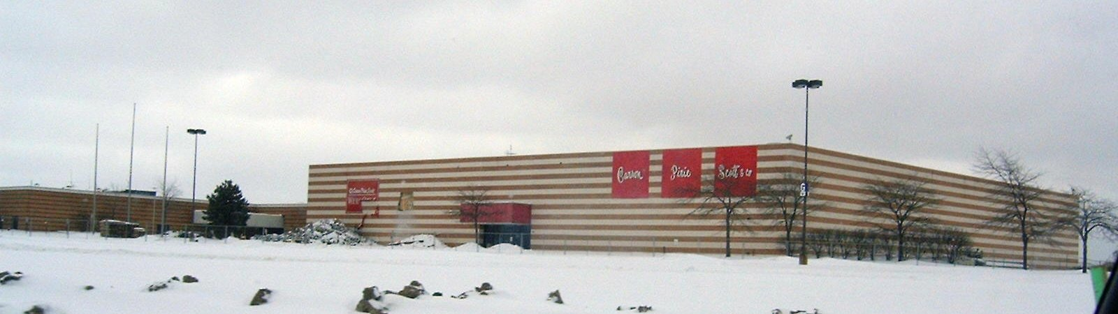 The Carson Pirie Scott & co. building at the now demolished Lakehurst Mall.